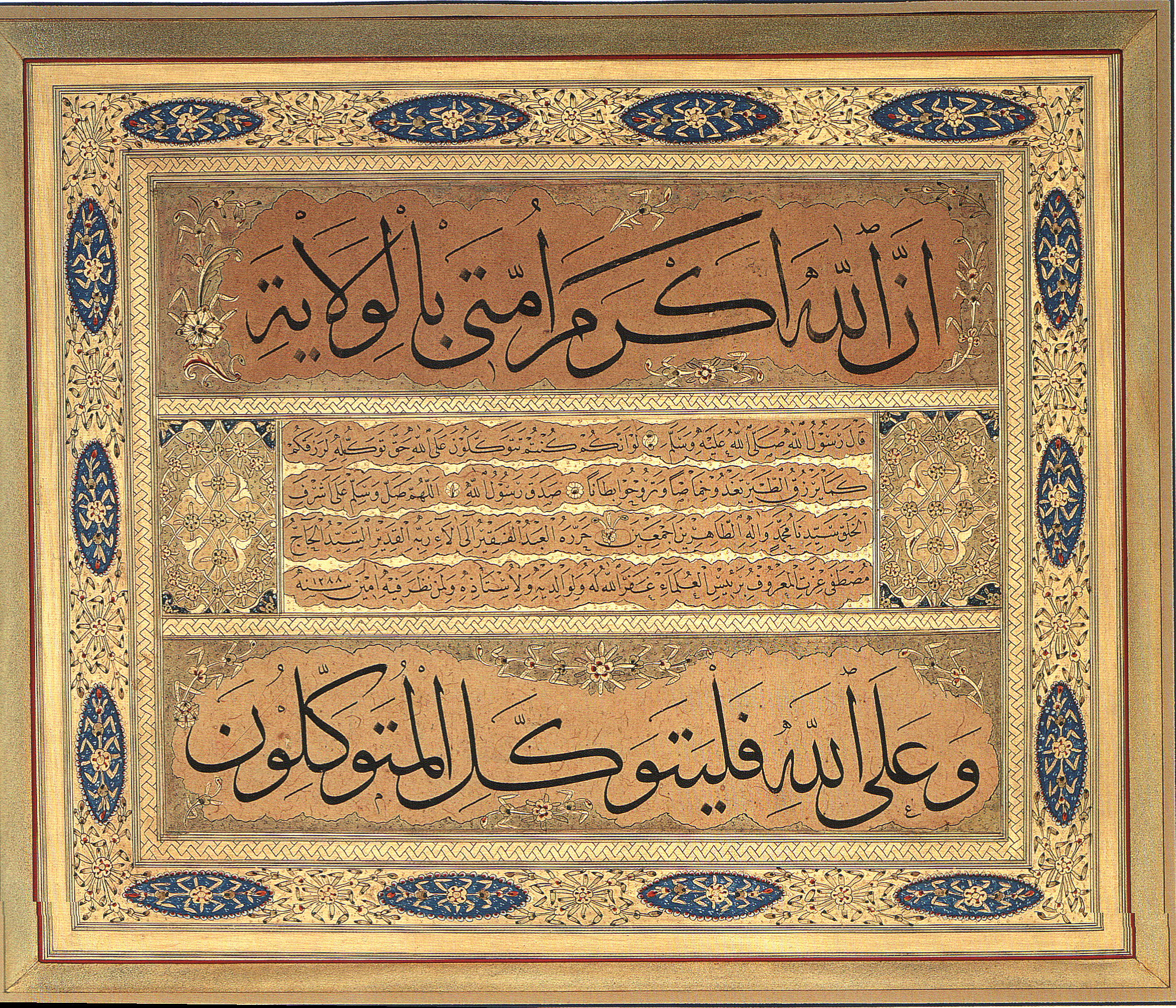 Kit'a drawn by Kadiasker Mustafa Izzet, Istanbul 1288/1871, sulus and nesih scripts, ink, colors and gold on paper mounted on cardboard, 21.5 x 26 cm, Sakıp Sabancı Museum